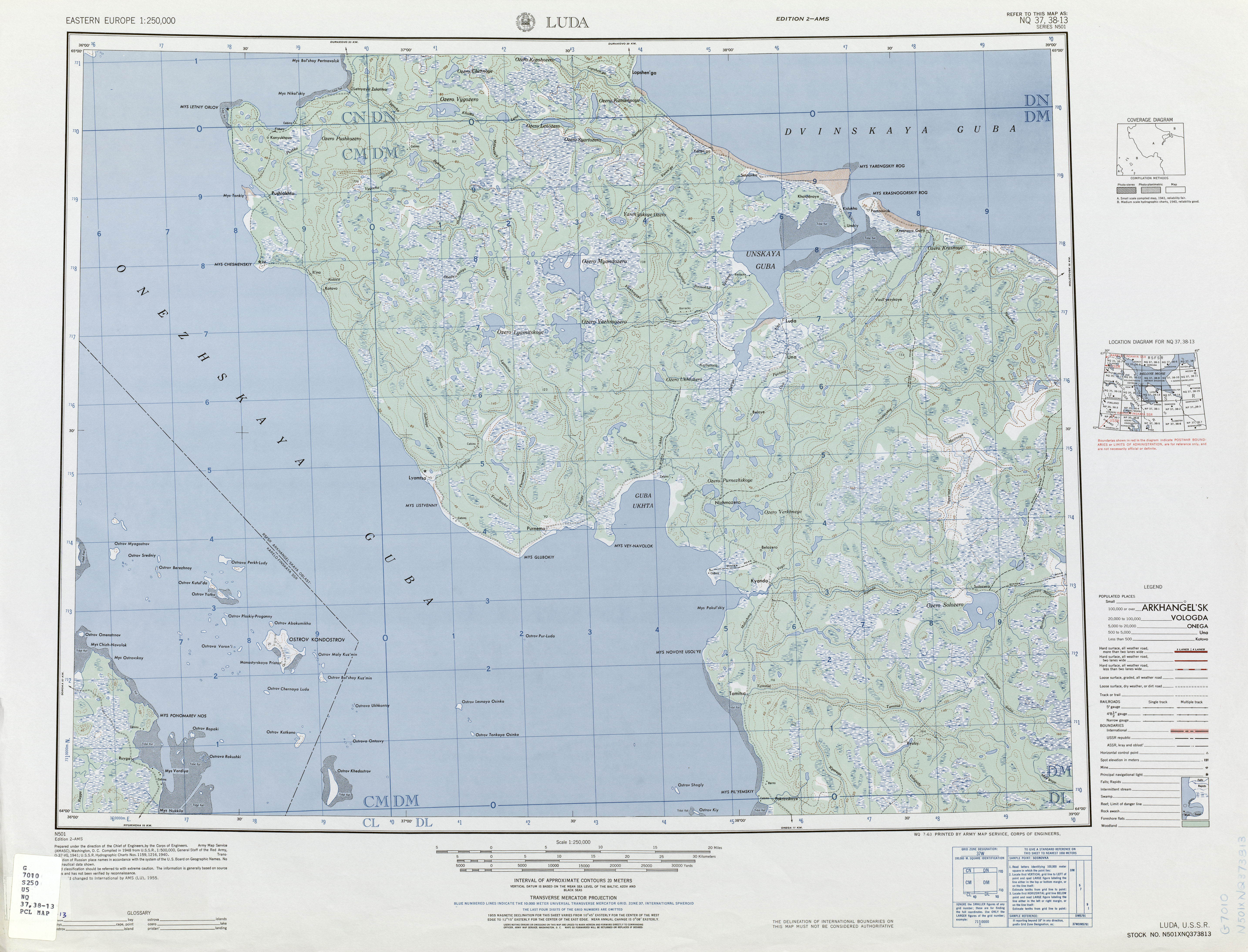 List from Eastern Europe AMS Topographic Maps. Series N501, U.S. Army Map Service, 1954